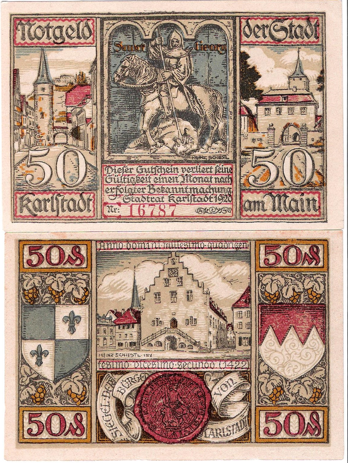 local emergency money, Karlstadt 1920